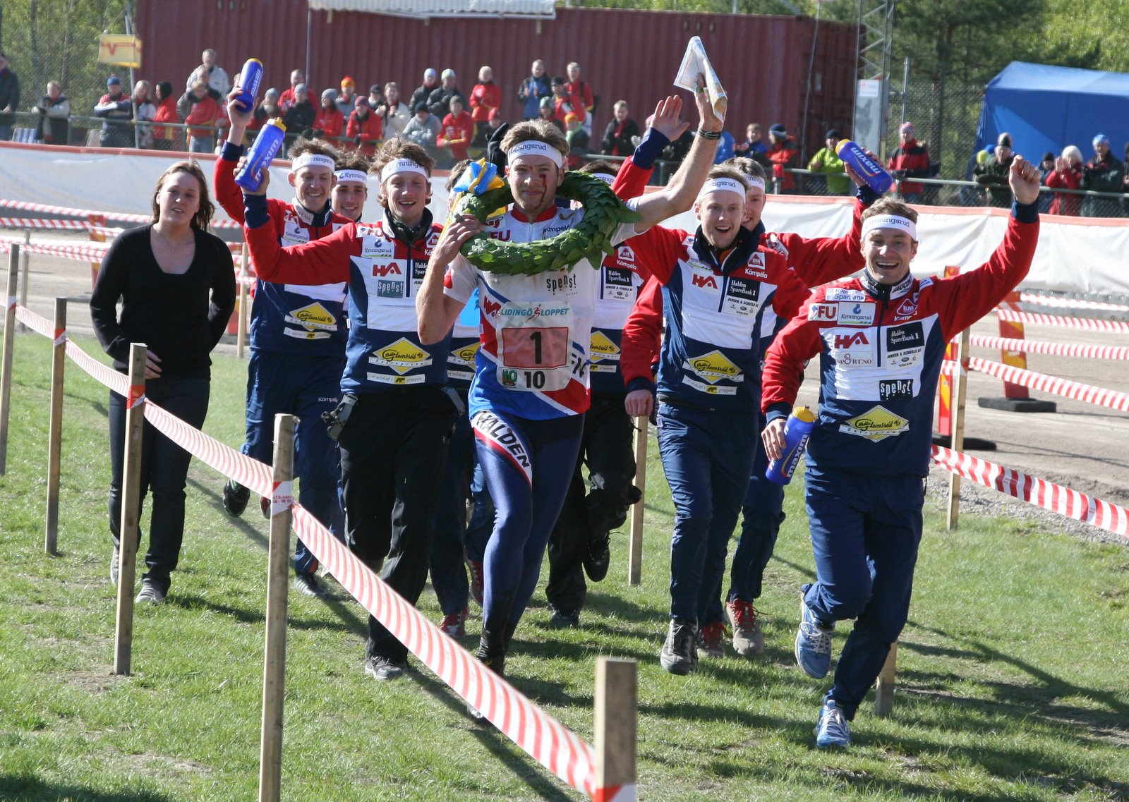 Halden SK is the winner of Tiomila 2007